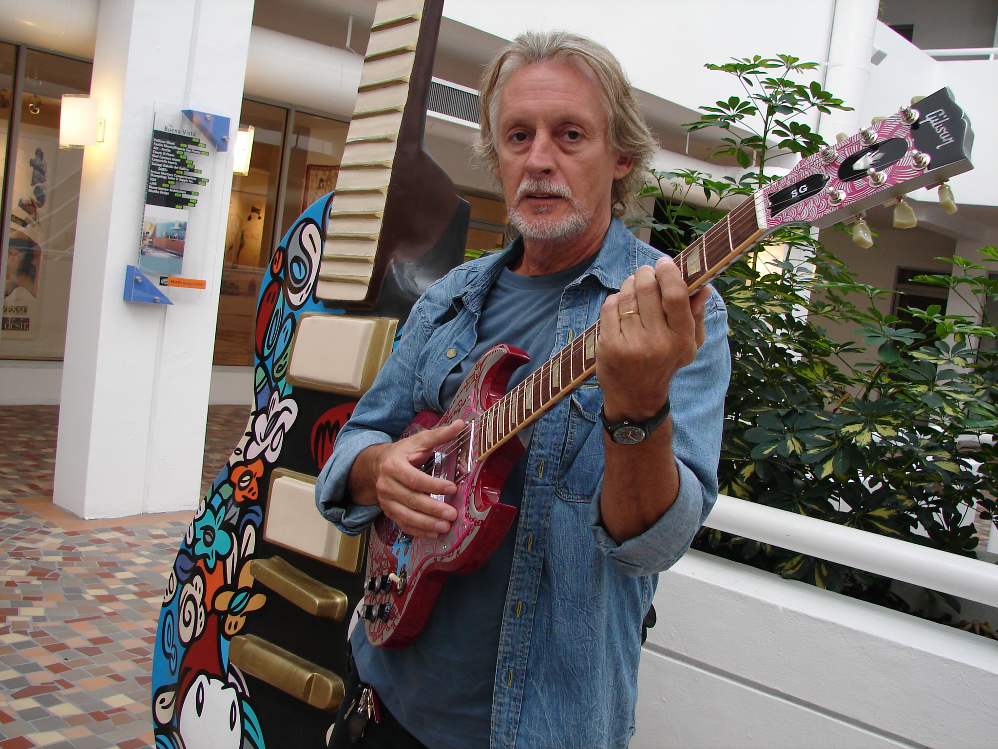 Nito Mestre at Gibson in Miami, 2007